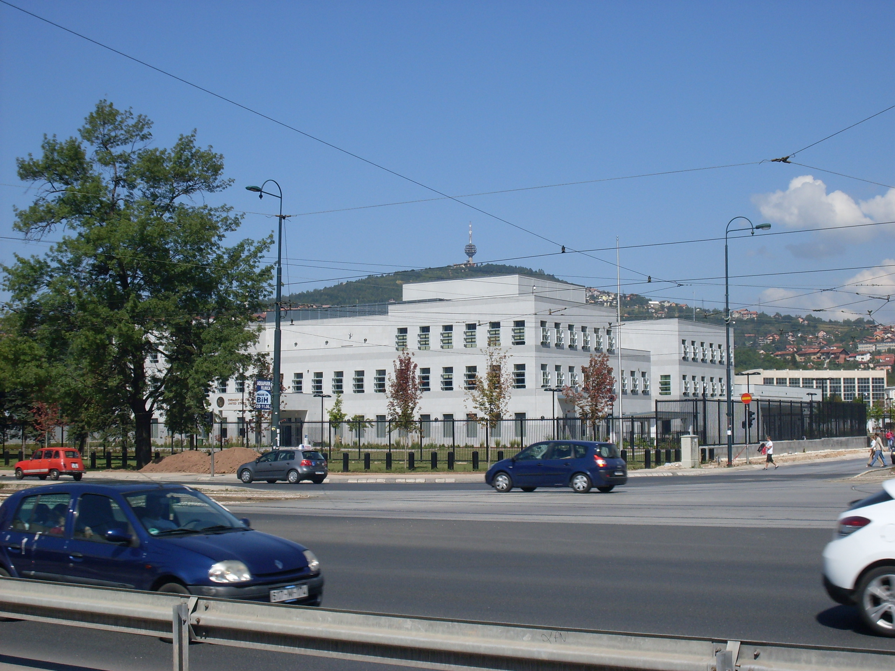 New USA Embassy in Sarajevo